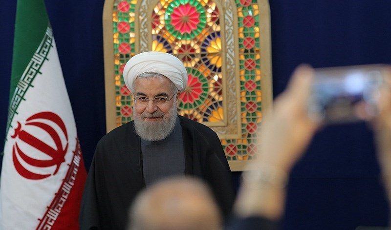 President Hassan Rouhani travels to Yazd